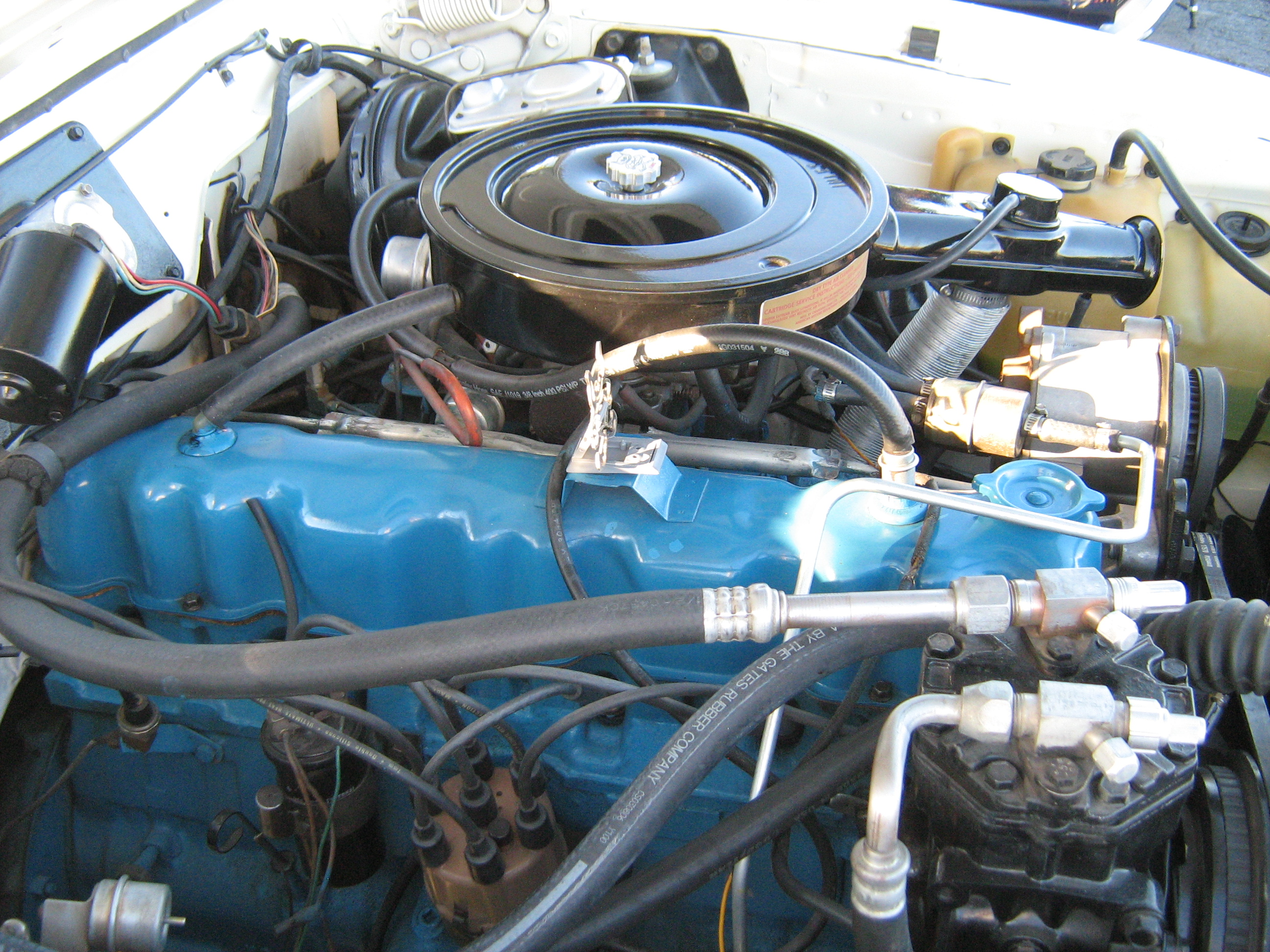 1977 Gremlin "Custom" model built by American Motors Corporation (AMC). A two-door subcompact. The 258 CID (4.2 L) straight-six engine in this car.